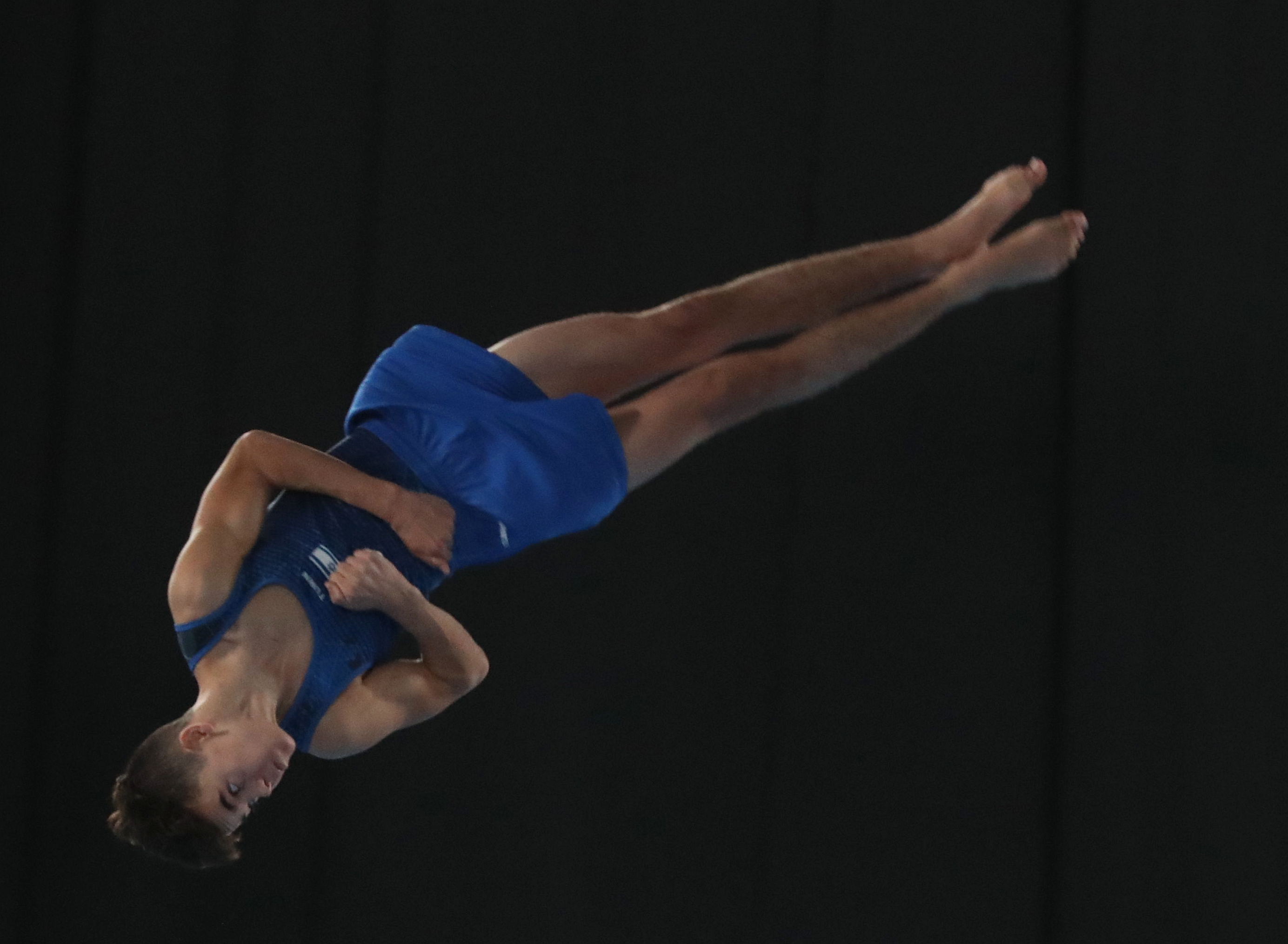 Floor qualification of the boys' artistic gymnastics at the 2018 Summer Youth Olympics in Buenos Aires on 7 October 2018. Depicted: Uri Zeidel.